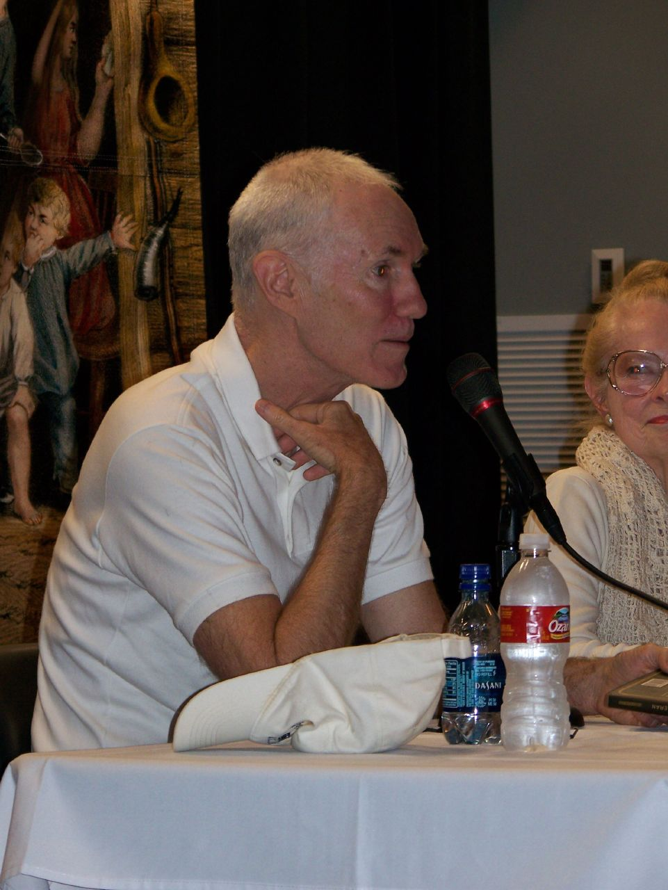 Pictures from the 2007 Arkansas Literacy Festival. April 21, 2007.